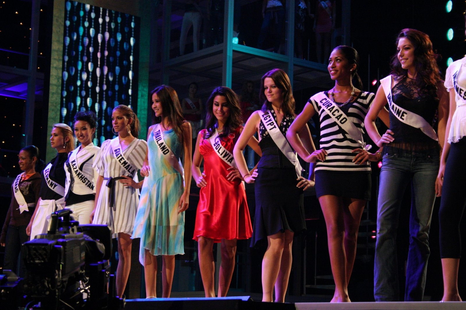 Contestants during rehearsals for the Miss Universe 2007 pageant in Mexico City, Mexico